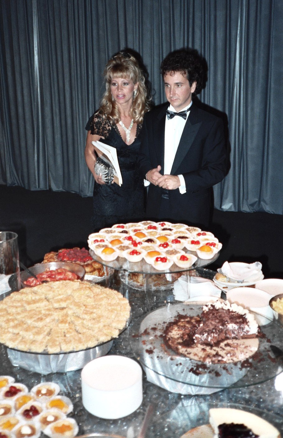 Mark Linn-Baker eyes the dessert table at the Governor's Ball held immediately after the 39th Annual Emmy Awards telecast 9/20/87 - Permission granted to copy, publish, broadcast or post but please credit "photo by Alan Light" if you can